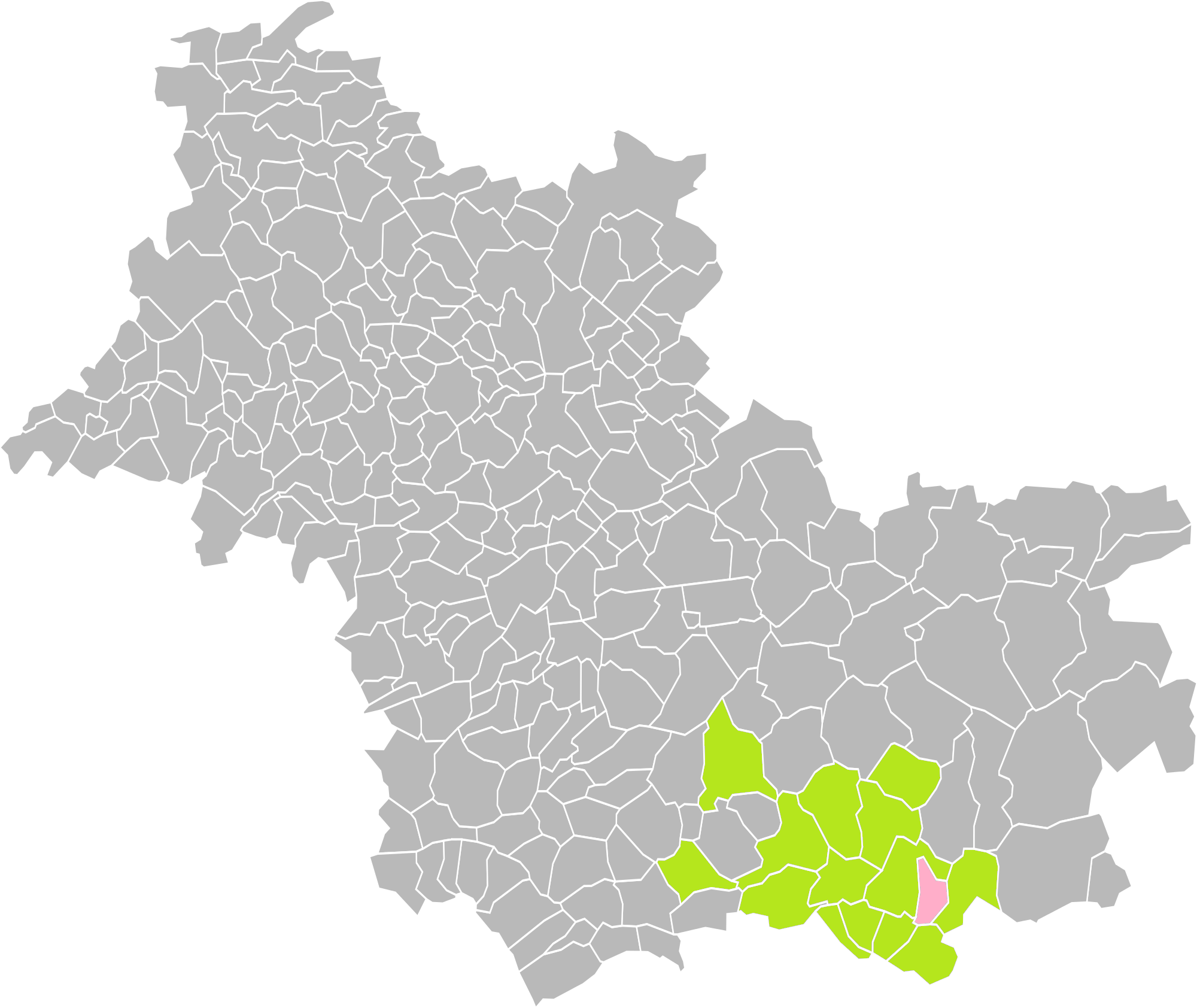 Location of the commune of Mennetou-sur-Cher in the Communauté de communes du Romorantinais et du Monestois (Loir-et-Cher)